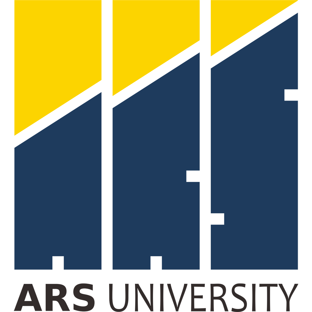 ARS University Logo